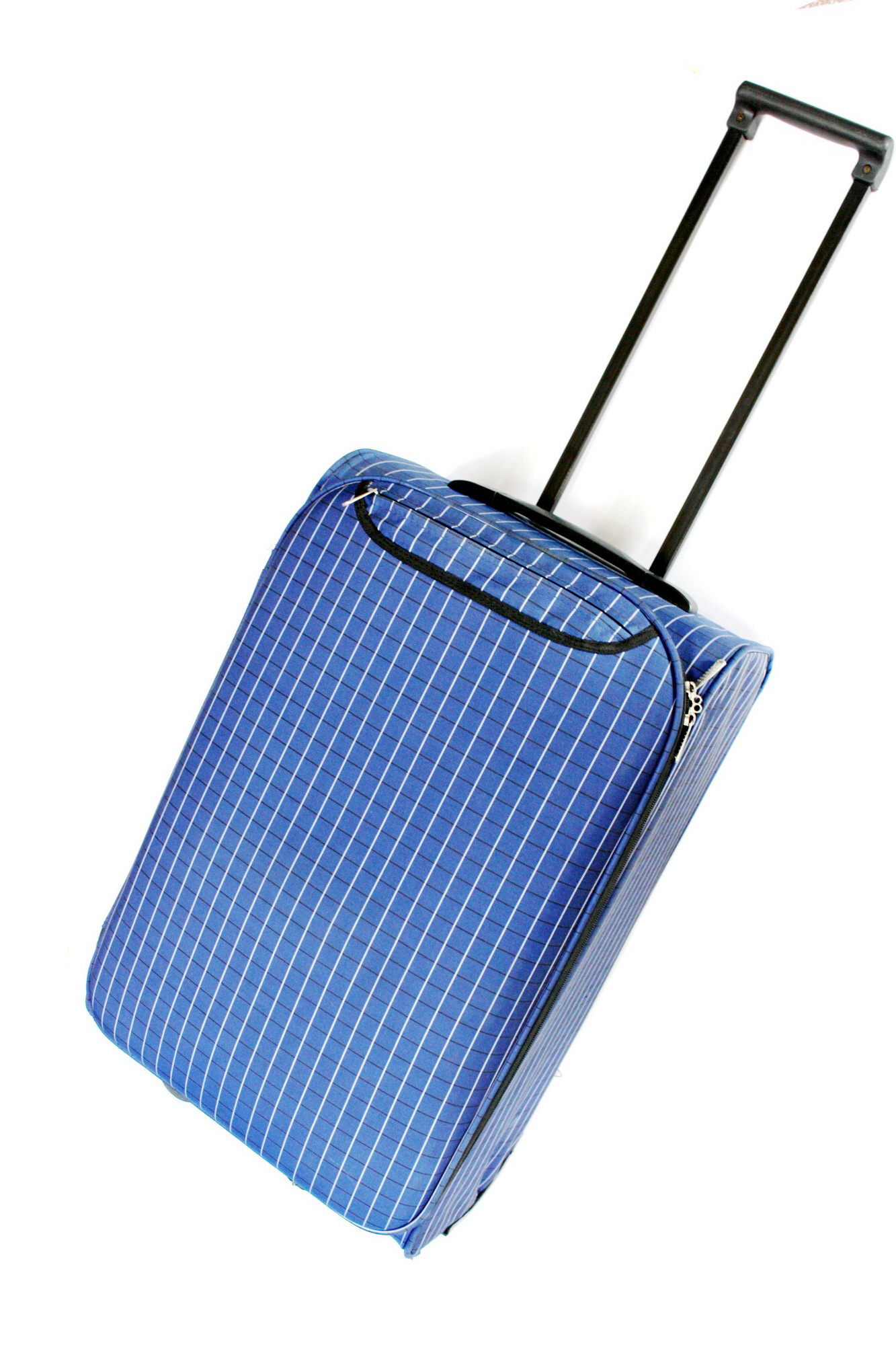 Suitcase made with cloth material.